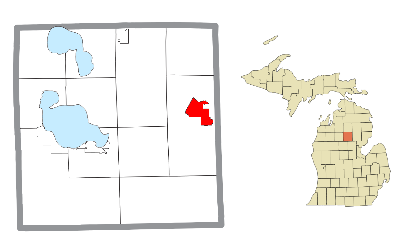 St. Helen, MI